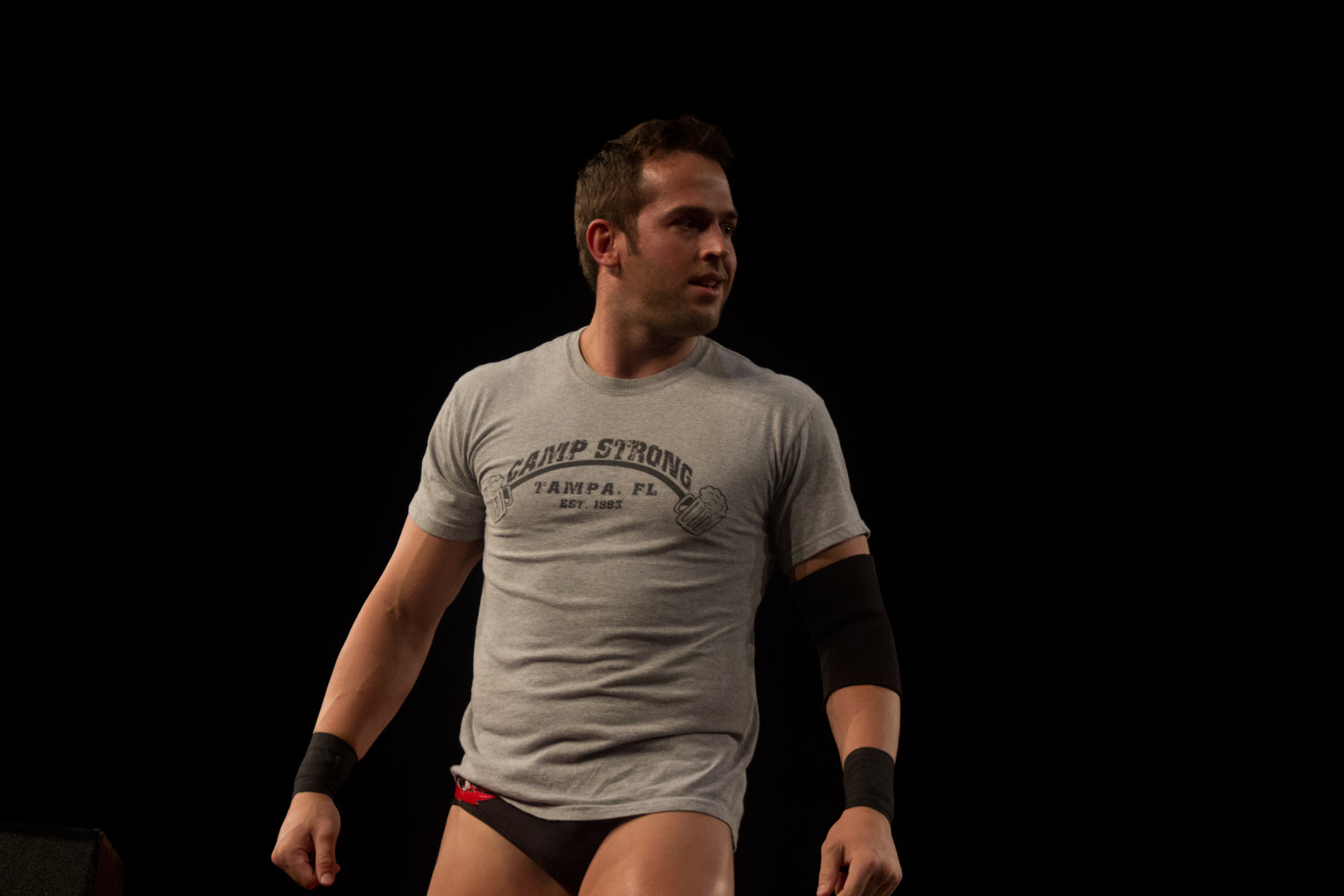 Roderick Strong enters at a Ring of Honor event in September 2013.